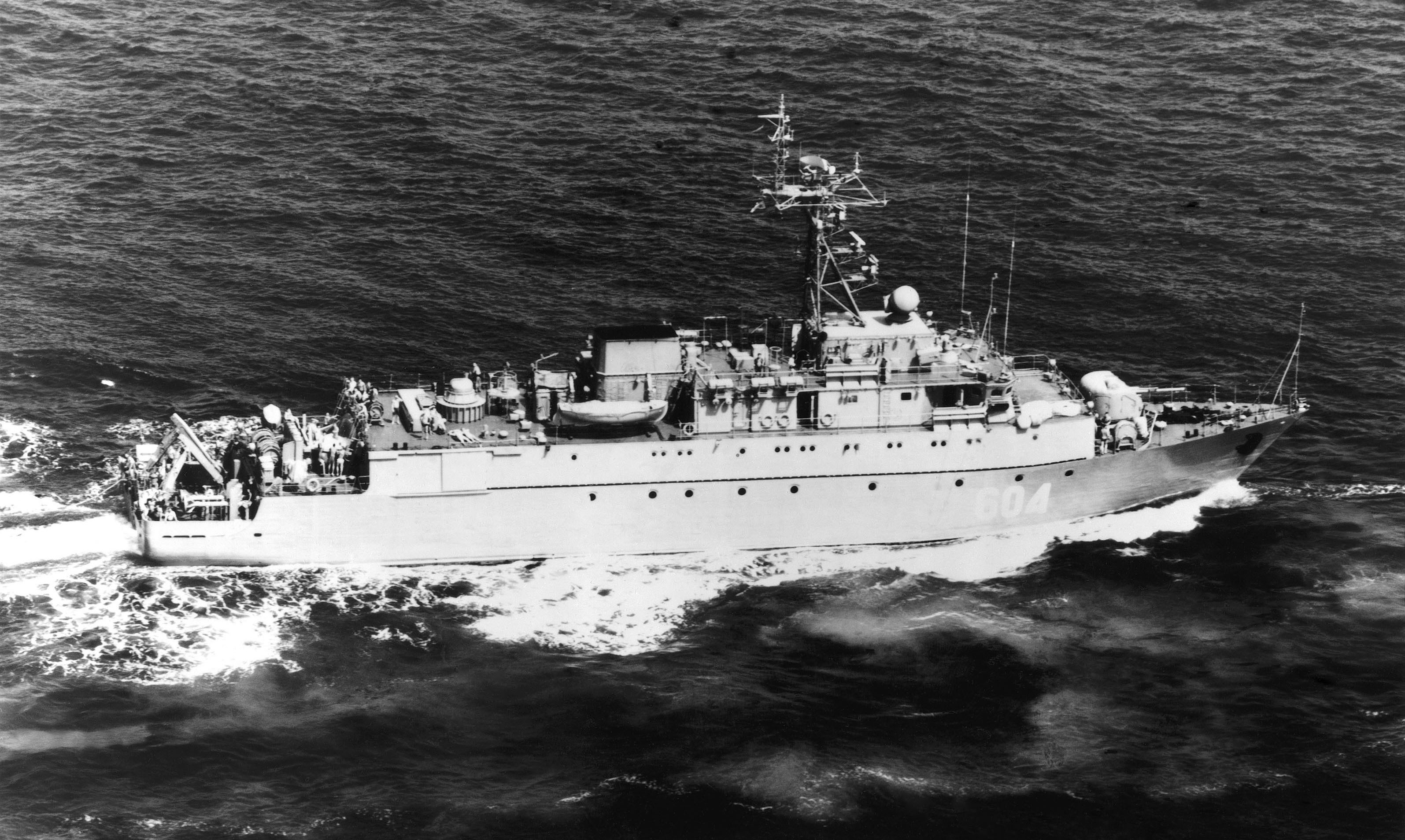 A starboard beam view of a Soviet Gorya class minehunter (MHS) underway.